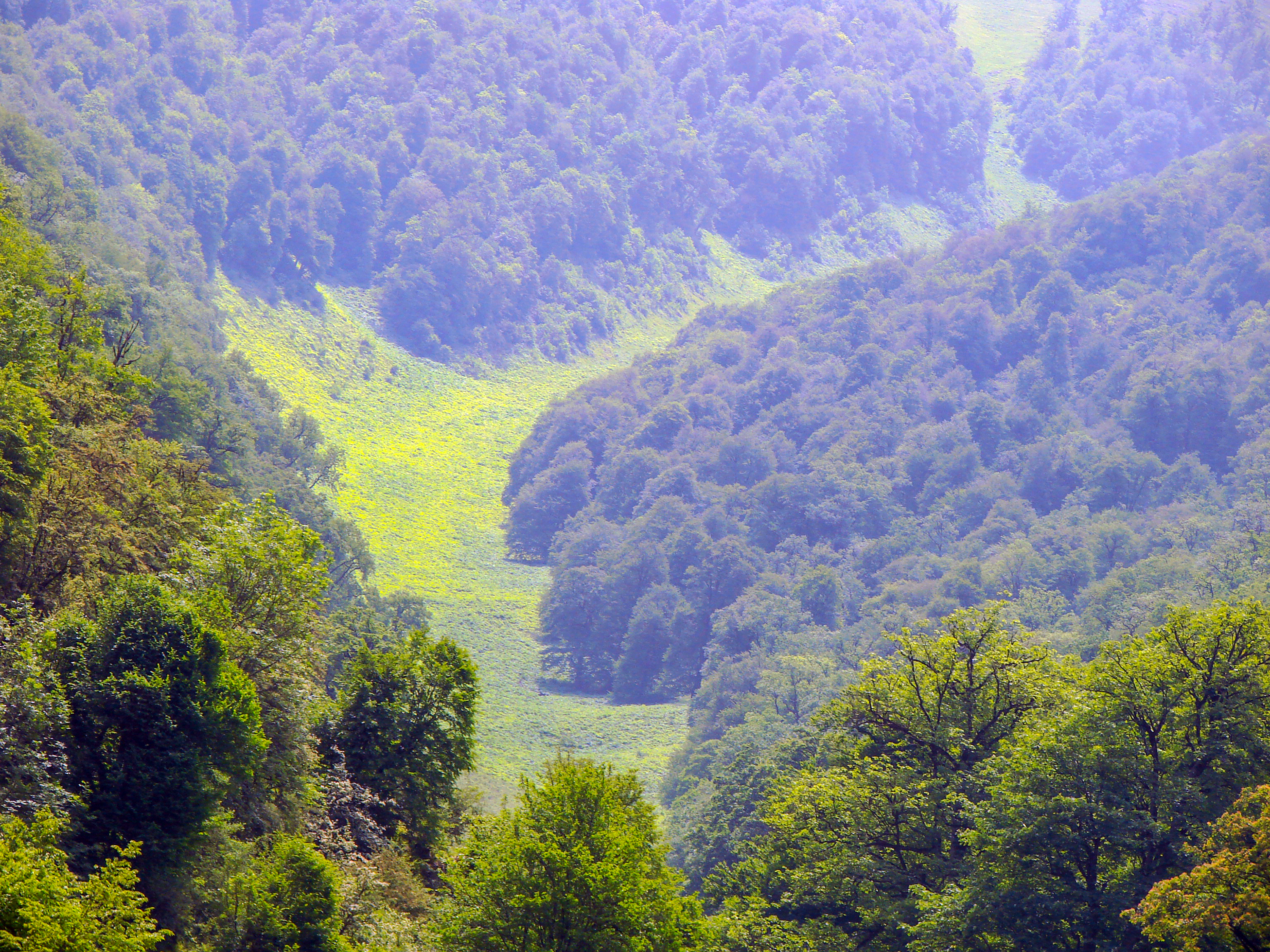 Shahrak-e Namak Abrud is a touristic village and has an aerial tramway which starts at the sea level near the shores of the Caspian Sea and ends on the top of the Alborz heights crossing dense forest area of northern Iran. There are numerous villa cities around it which form a vacation region for the people of Tehran.